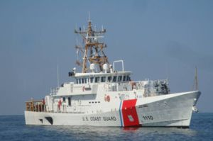 Coast Guard Cutter Raymond Evans.